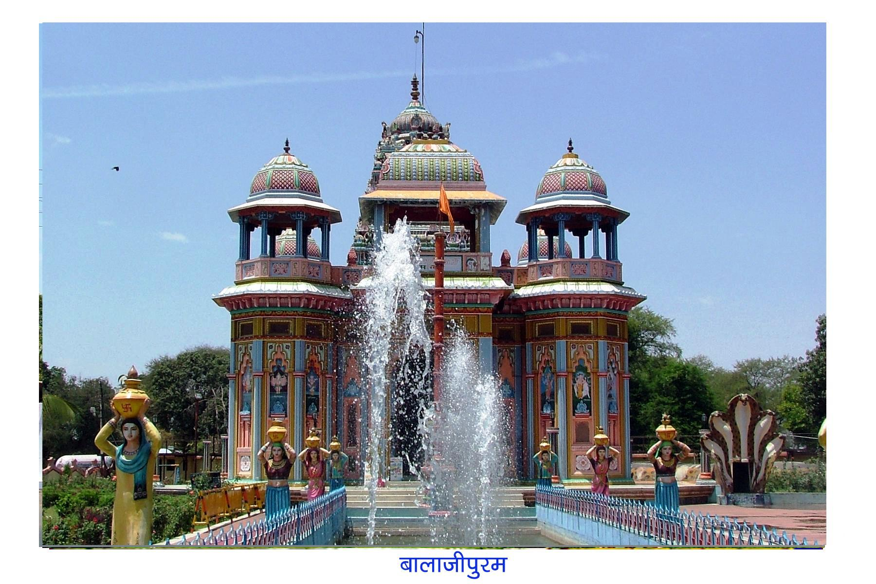 the majestic Balajipuram Temple at Betul - madhya pradesh .